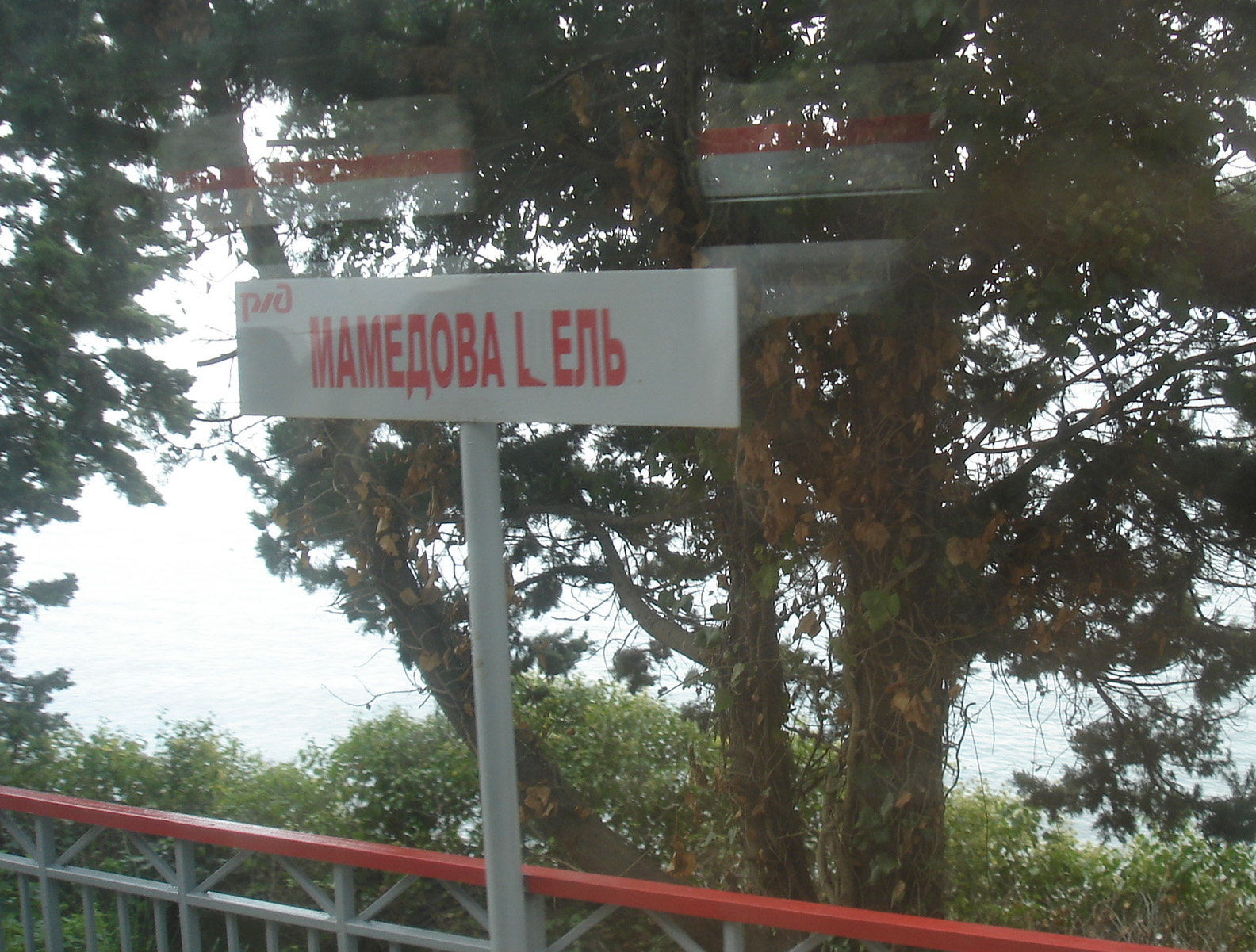 Mamedova Shchel Station